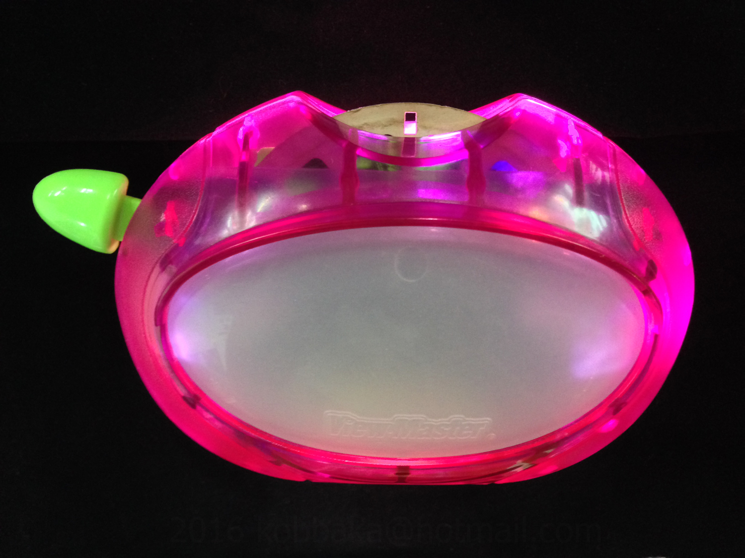 View-Master Virtual Viewer. See through Pink